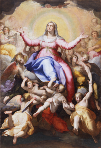 Assumption of Mary